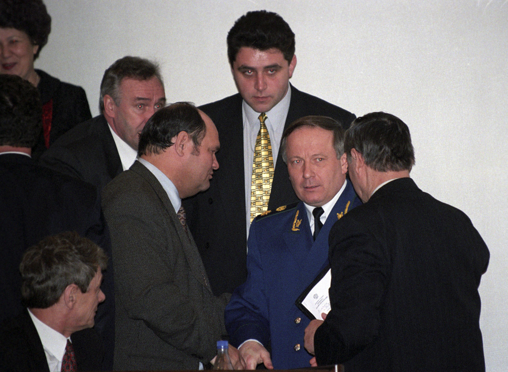 “Prosecutor-General Yury Skuratov”. Prosecutor-General Yury Skuratov at a meeting on his resignation in the Federation Council.